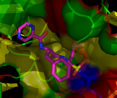 Illustration of the proteasome inhibitor bortezomib bound to an assembled yeast proteasome core (PDB ID 2F16). The bortezomib molecule is colored by atom (pink = carbon, blue = nitrogen, red = oxygen), and the surrounding protein binding pocket colored by local secondary structure (red = helix, green = loop, yellow = sheet). The blue sidechain and surface region represents the catalytic threonine residue.